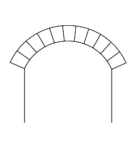 schematic image of segmental arche